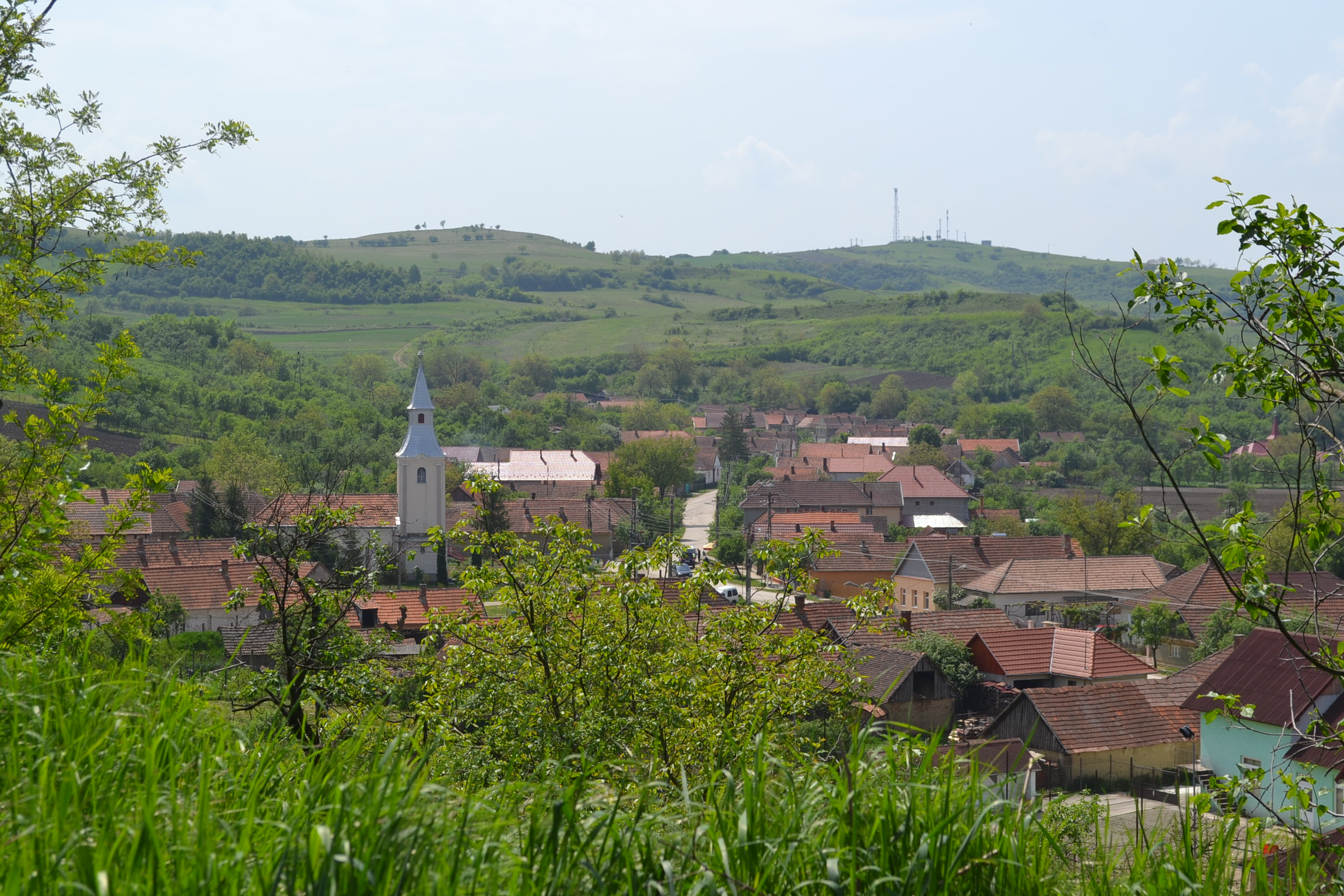 Leșmir (Sălaj County), panoramic view